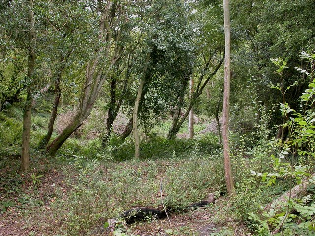 Golden Hill, community woodland Golden Hill Woodland, given to Hordle Parish Council in 1920, to be preserved as public space, recreation land or park; a mixed deciduous woodland, with conservation re-started, according to the information board. Hollows indicate disused marlpits.